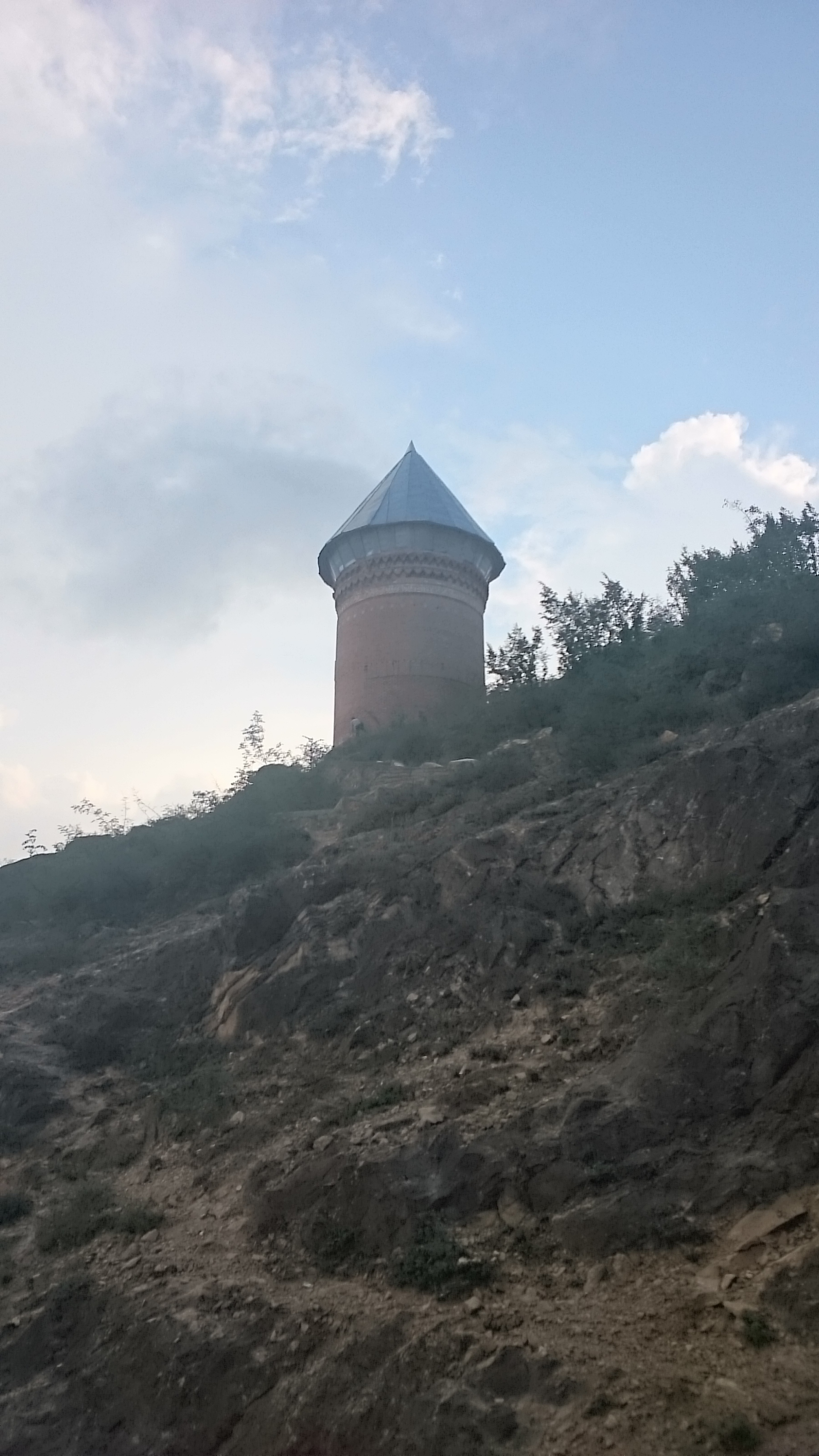 Resket Tower, Sari County